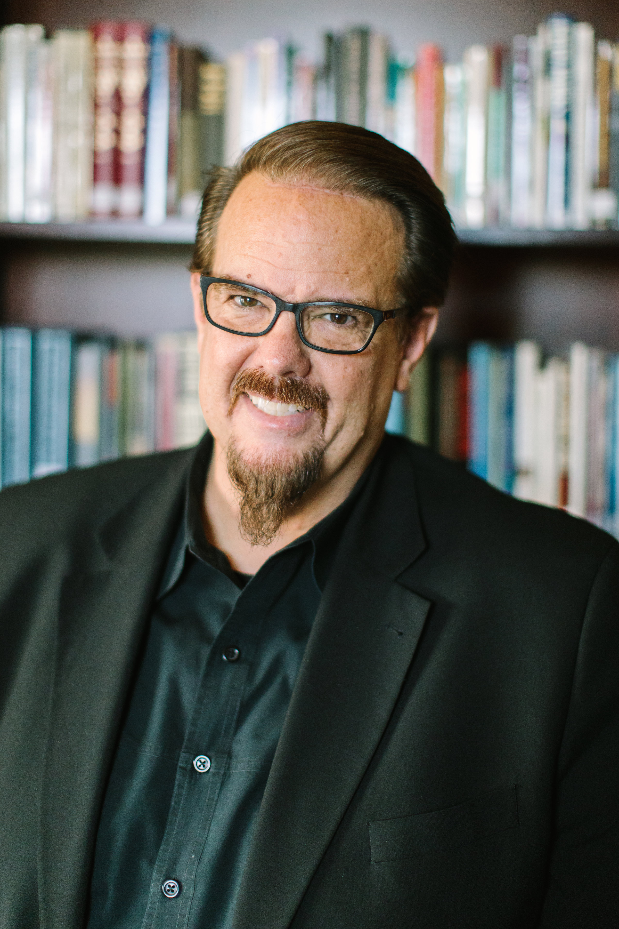 Ed Stetzer, taken at the Billy Graham Center, Wheaton College